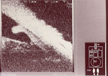 Ultrasonic Biomicroscopic image of Angle closure glaucoma showing iris apposed against Cornea